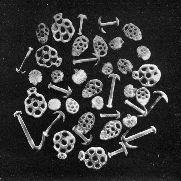 Holothuroidea calcified platelets. Source: de Wonderen van het Heelal Leiden, 1930, Sijthoff